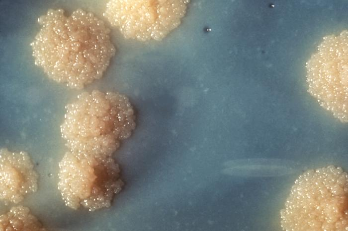 This is a close-up of a Mycobacterium tuberculosis culture revealing this organism’s colonial morphology. Note the colorless rough surface, which are typical morphologic characteristics seen in Mycobacterium tuberculosis colonial growth. Macroscopic examination of colonial growth patterns is still one of the ways microorganisms are often identified.